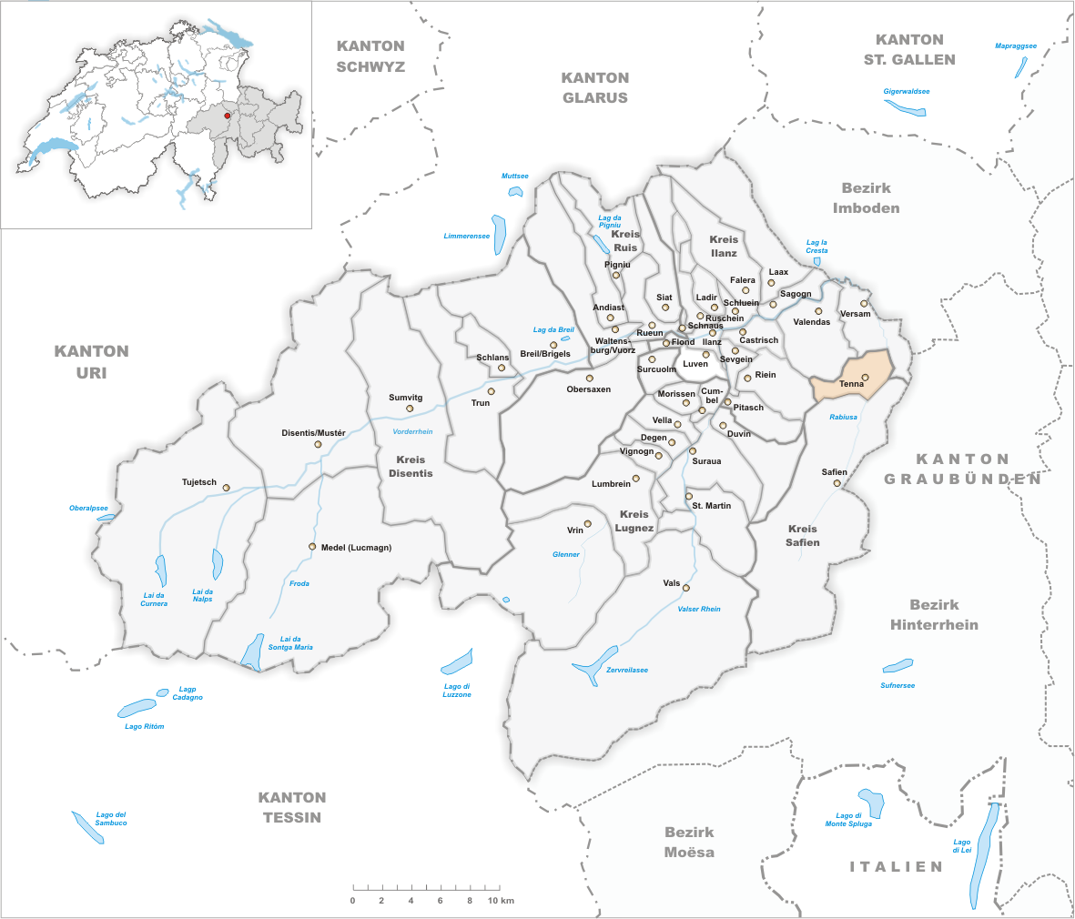 Municipality Tenna